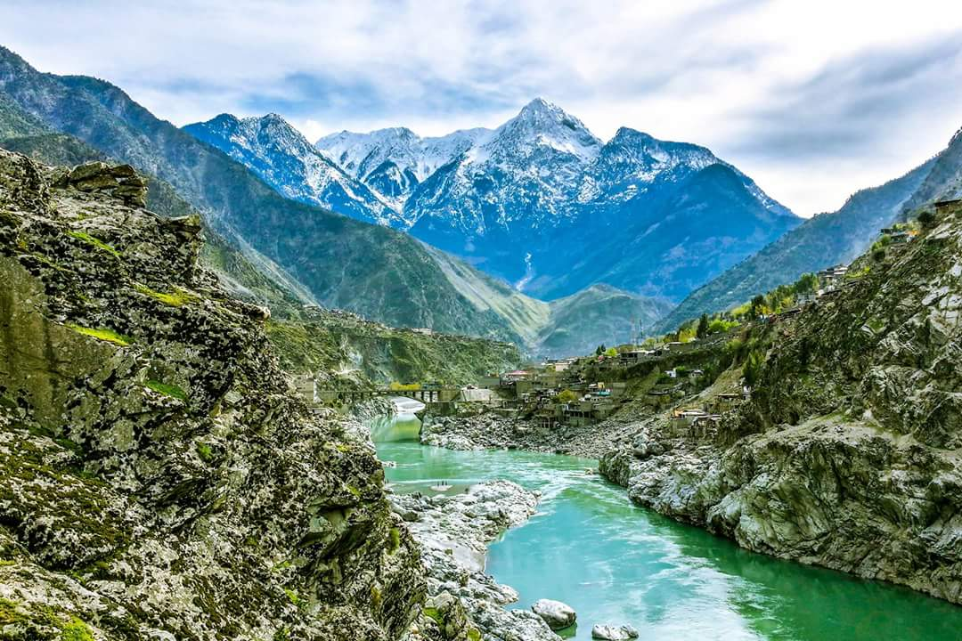 Dassu Tehsil is the district headquarters of Kohistan District, Khyber-Pakhtunkhwa, Pakistan. It had 15 Union Councils before the separation of the Kandia valley. Since its being named as Tehsil, the Dassu subdivision has 11 Union Councils. The total population of Dassu according to 1998 Census was 137,519, in 21,487 households.